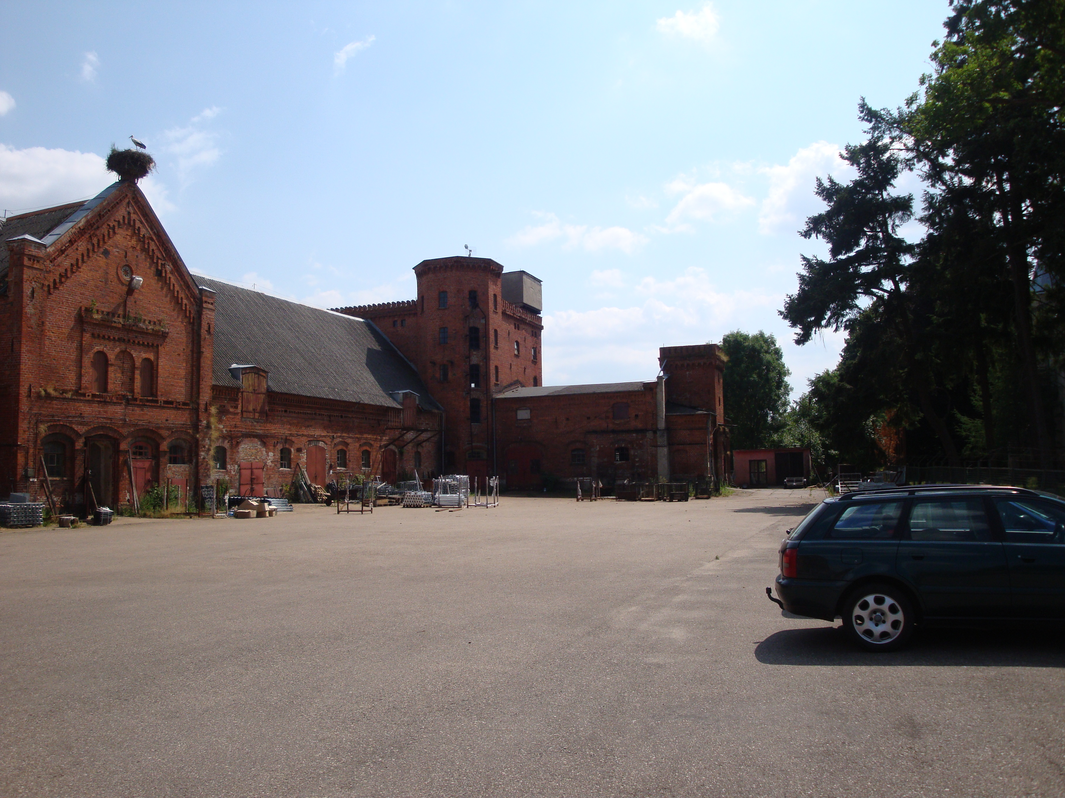 Karżcino-village in Pomeranian Voivodeship, Poland.